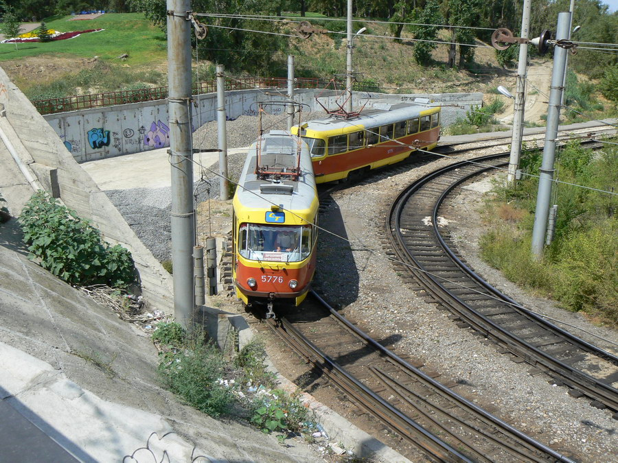 Corner of metrotram line near "Chekistov square" station in Volgograd, Russia